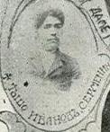 Portrait of IMARO member Toshe Ivanov from Sermenin